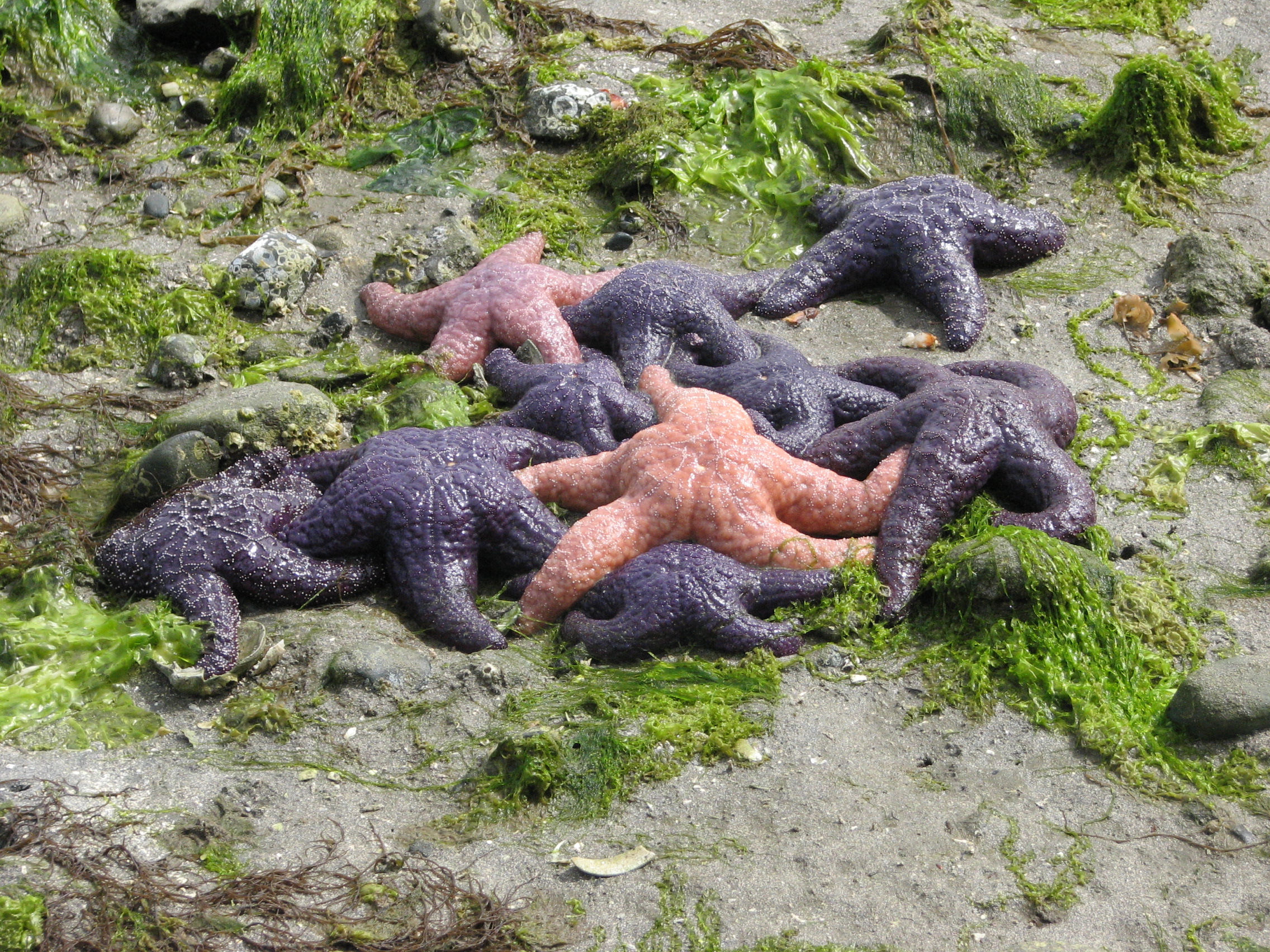 Ochre sea stars (Pisaster ochraceus) taken at Ganges Harbour, Salt Spring Island, British Columbia